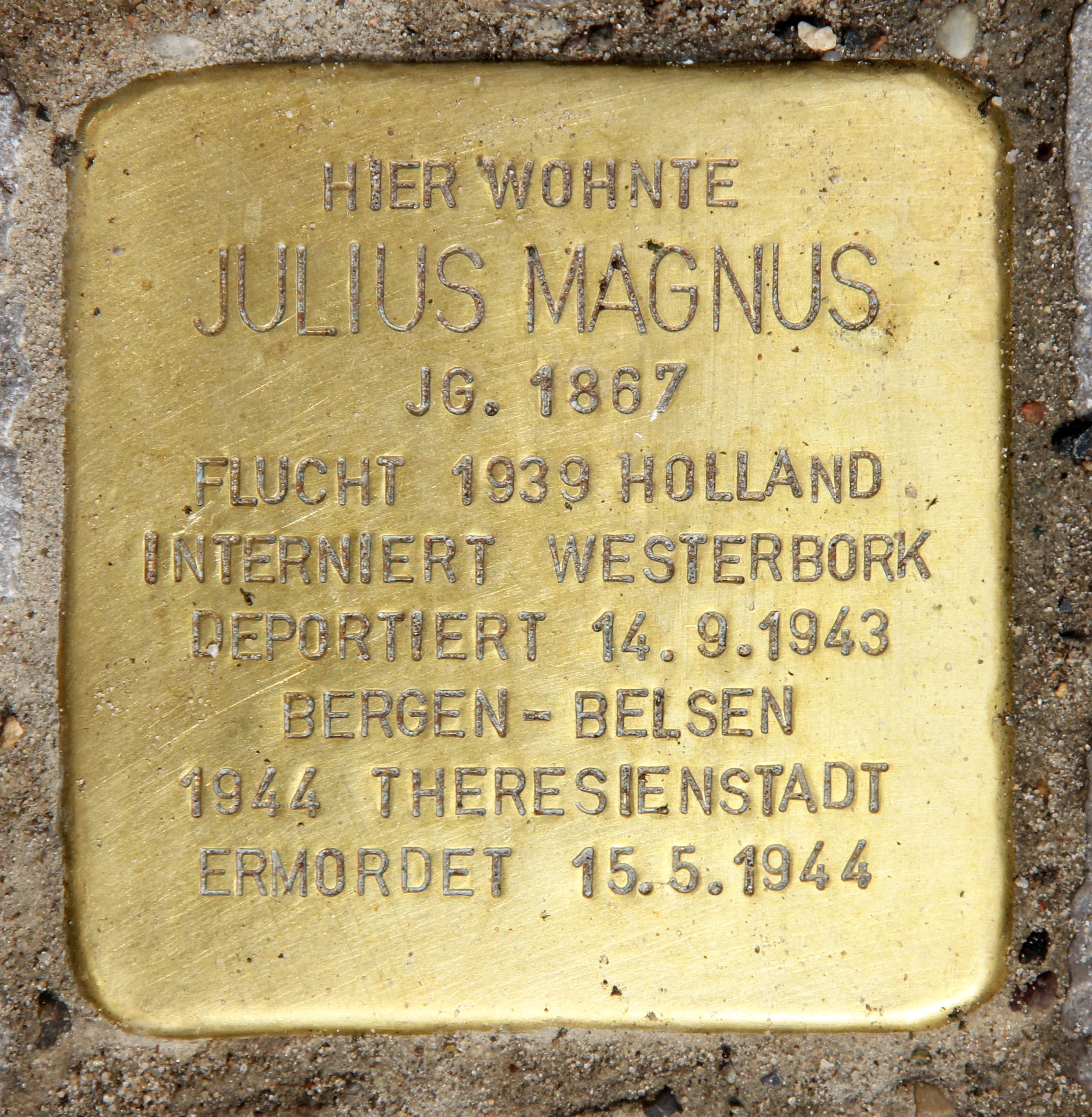 "Stolperstein" (stumbling block), Julius Magnus, Meerscheidtstraße 13, Berlin-Westend, Germany